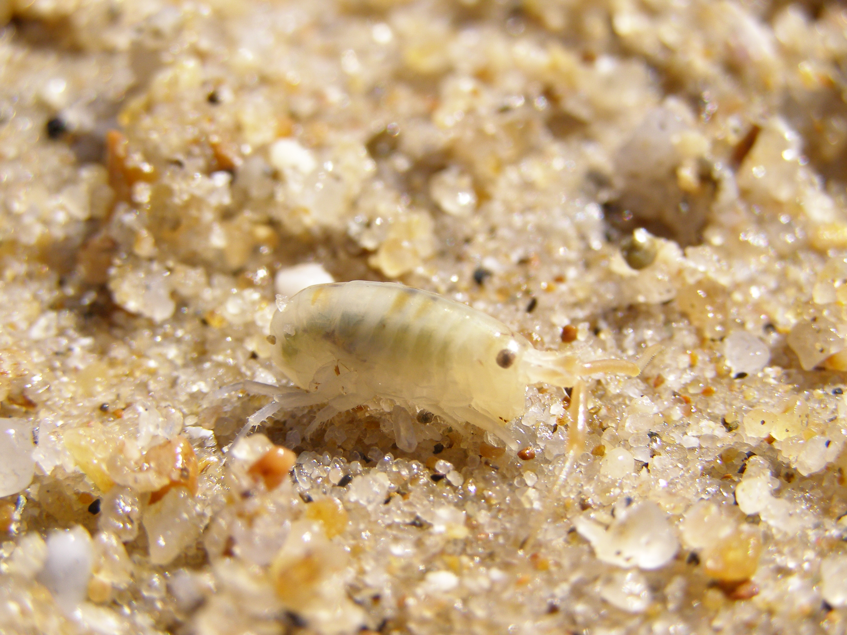 Sand flea. Praia da Aguda, Arcozelo, Vila Nova de Gaia, Portugal.